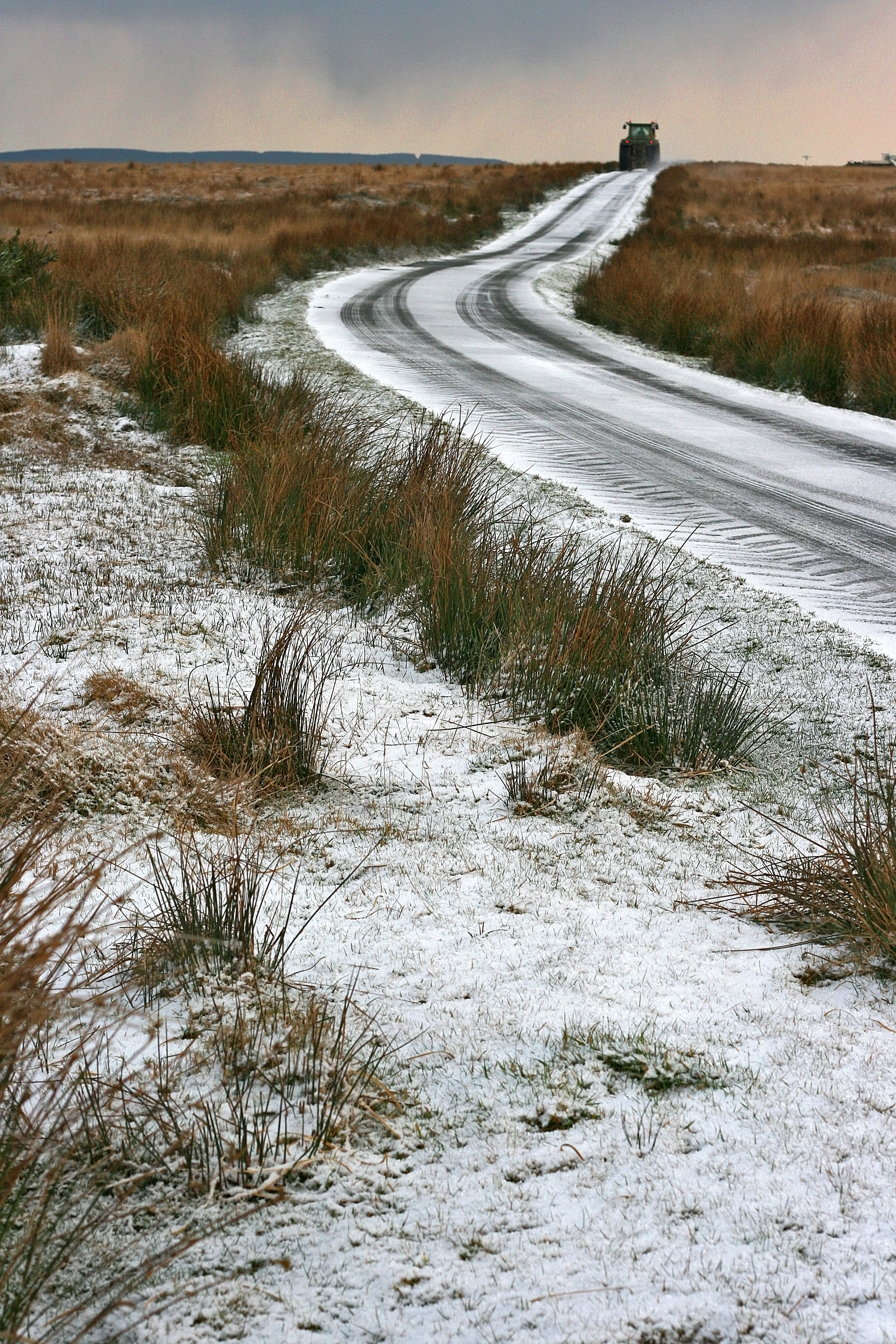 A tractor driving along a road on Bursdon Moor near Hartland, Devon, England after a snowfall.